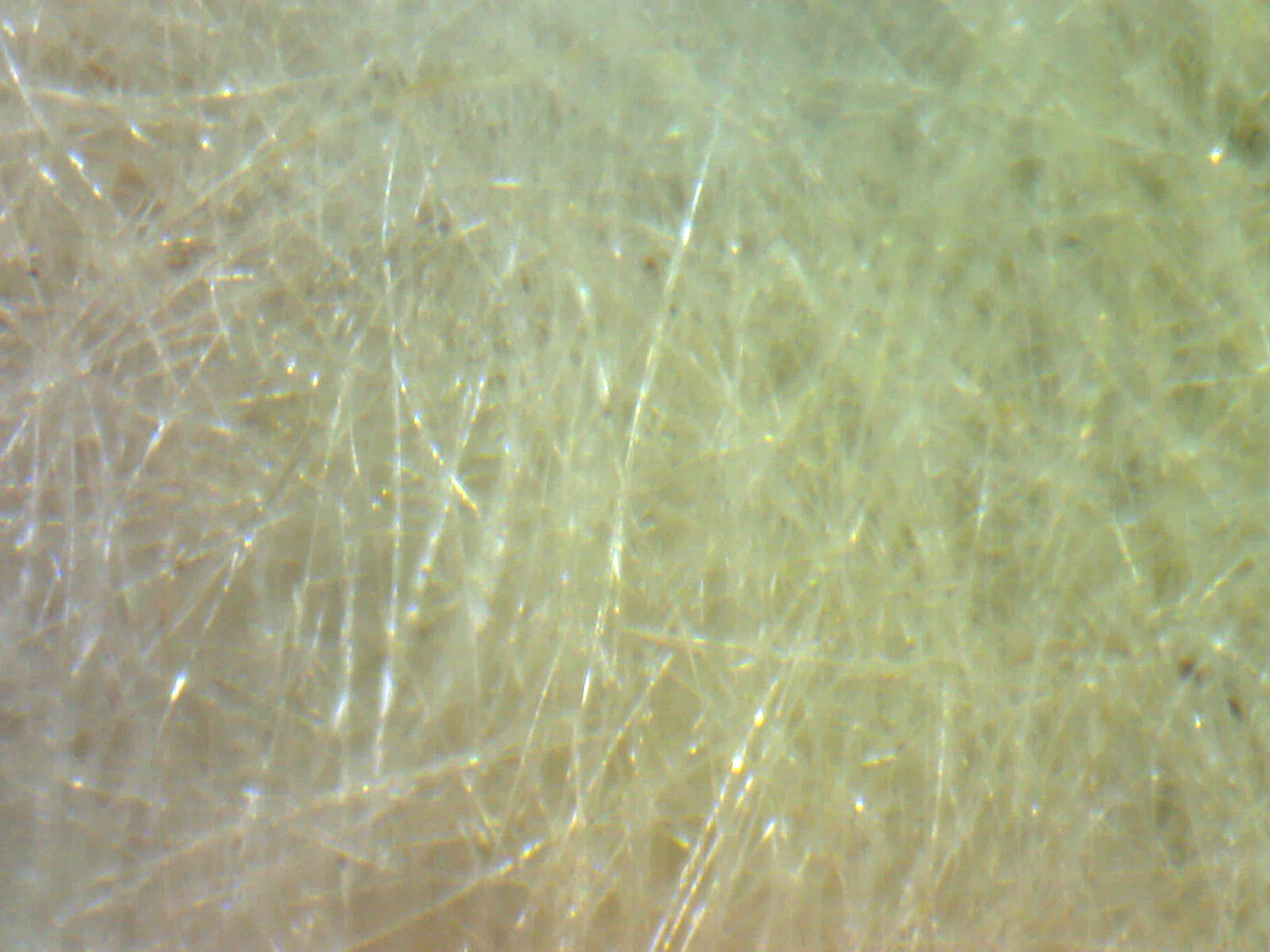 Close-up view of rockwool insulation fibres.